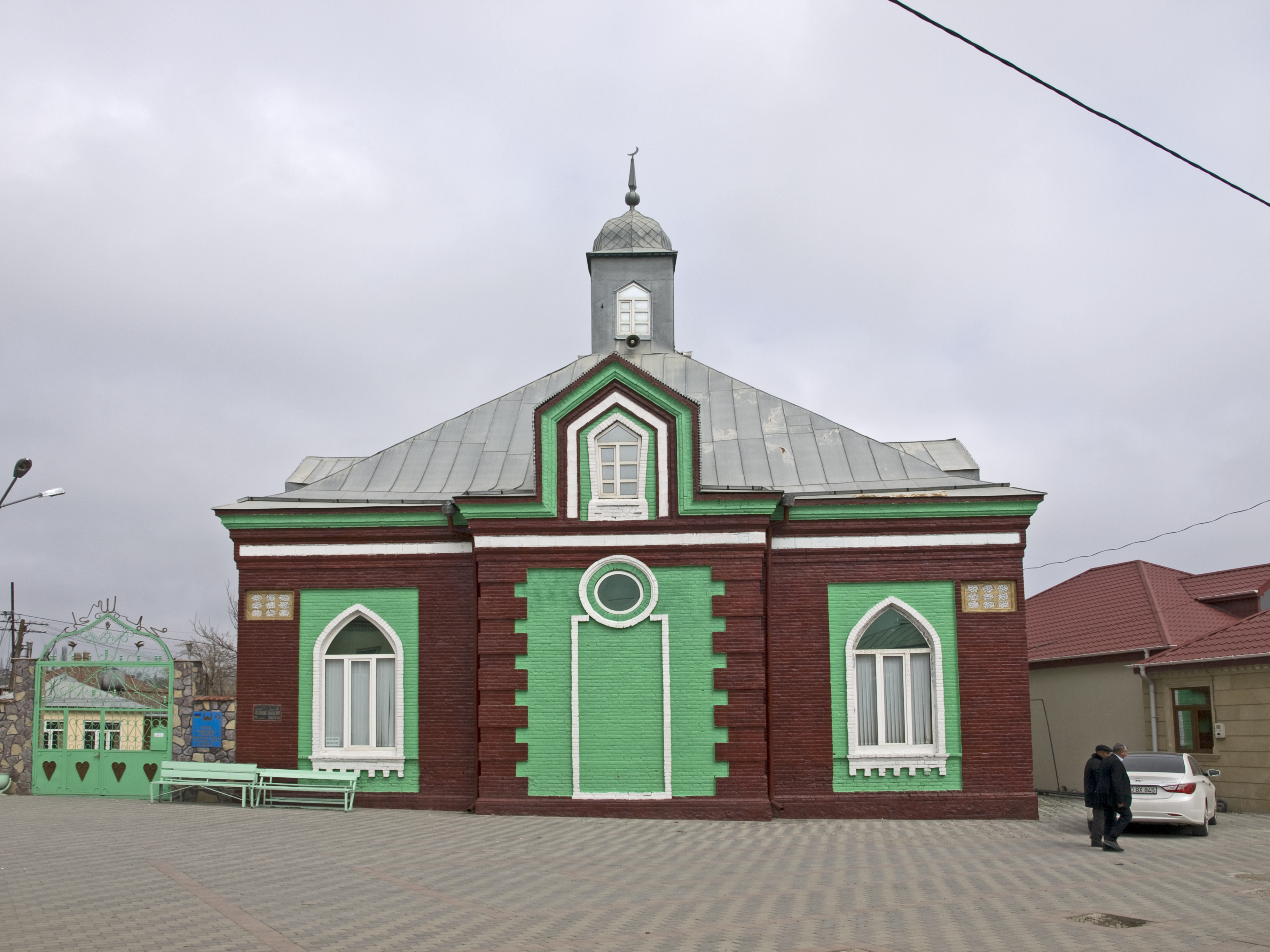 Ardebil Mosque in Quba, Azerbaijan